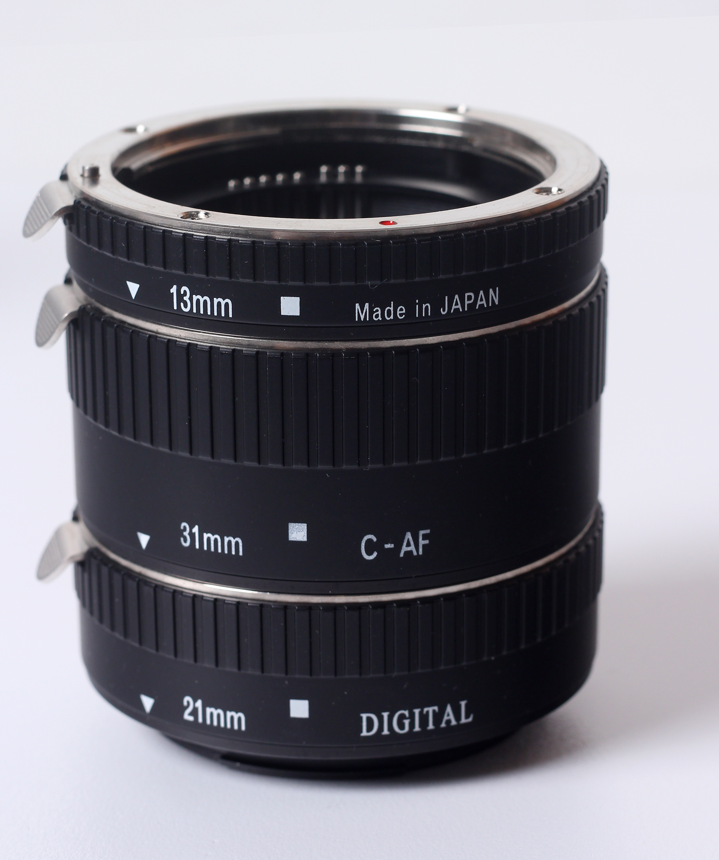 Extension tubes Canon EF